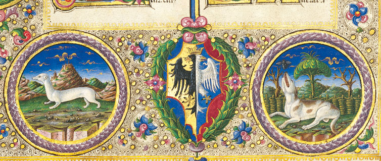 CRIVELLI, Taddeo Bible of Borso d'Este Illumination on parchment Biblioteca Estense, Modena